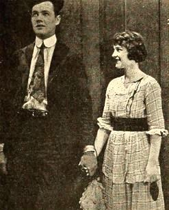 Still from the American comedy film Bill Henry (1919) with Charles Ray and Edith Roberts, on page 1867 of the August 30, 1919 Motion Picture News.